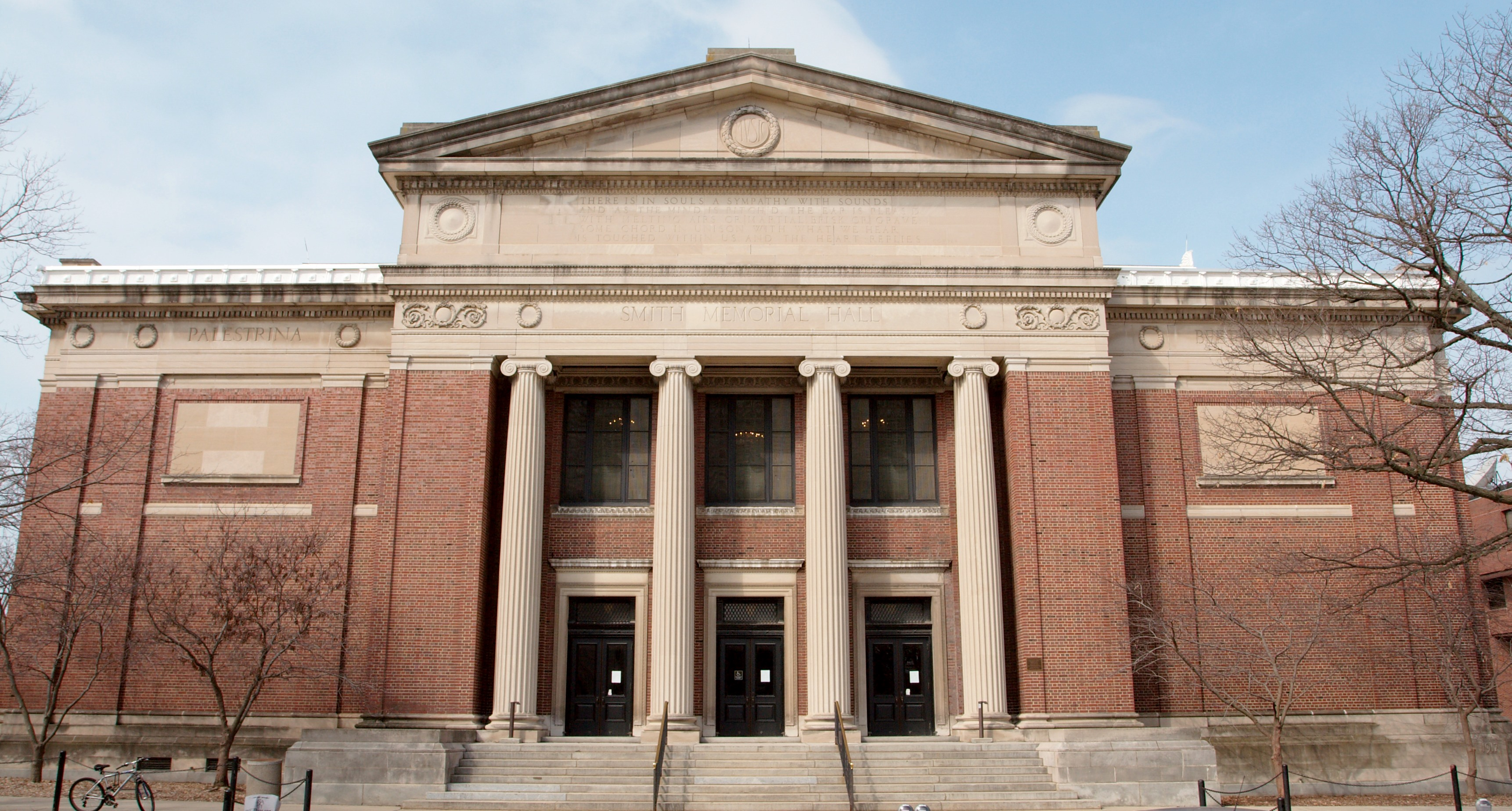 Urbana, IL Smith, Tina Weedon, Memorial Hall (added 1996 - Building - #96000097) Also known as Smith Hall 805 S. Mathews Ave., Urbana Historic Significance: Architecture/Engineering Architect, builder, or engineer: White,James M. Architectural Style: Beaux Arts Area of Significance: Architecture Period of Significance: 1900-1924 Owner: State Historic Function: Education Historic Sub-function: College Current Function: Education Current Sub-function: College